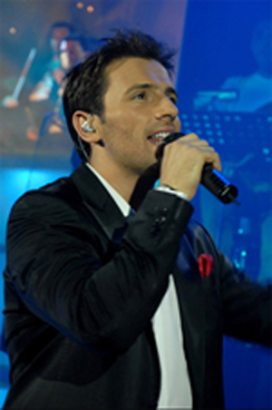 Club Posidonon - Athens, Greece